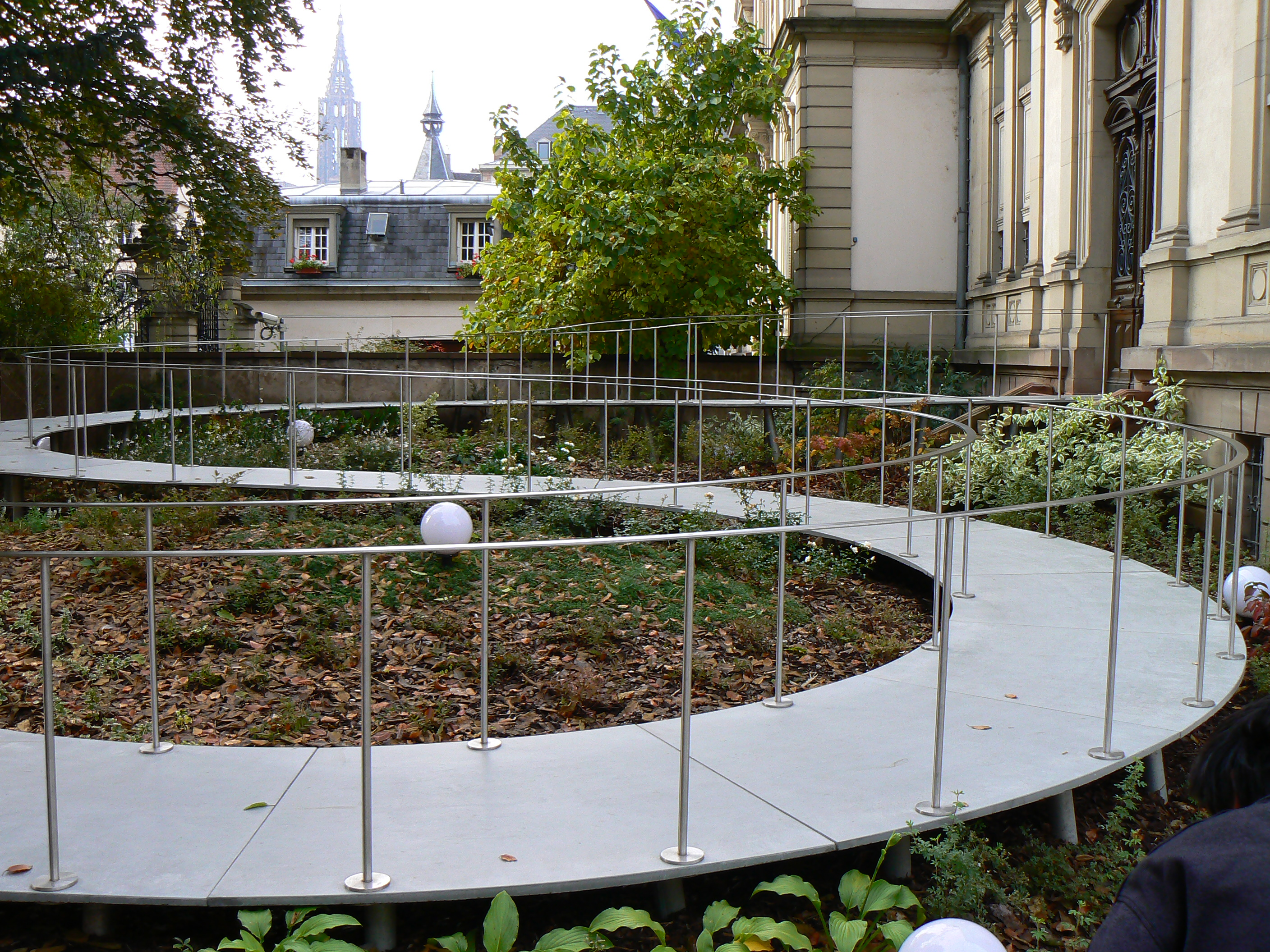 Tomi Ungerer Museum in Strasbourg